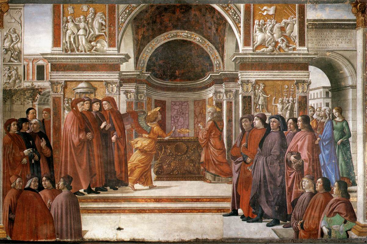 Domenico Ghirlandaio's art